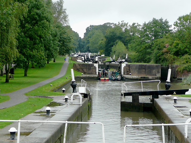 Hatton Locks, Warwickshire. Two narrowboats are entering Lock No 44 (the third from the top in the flight of twenty-one). They were oblivious to the fact that their locking crew had left a gate open at Lock No 43, and the paddle is still up. This is the pound that was drained of water, possibly by a similar error the previous day. They were not especially pleased at having to come back to finish the job. 1188139